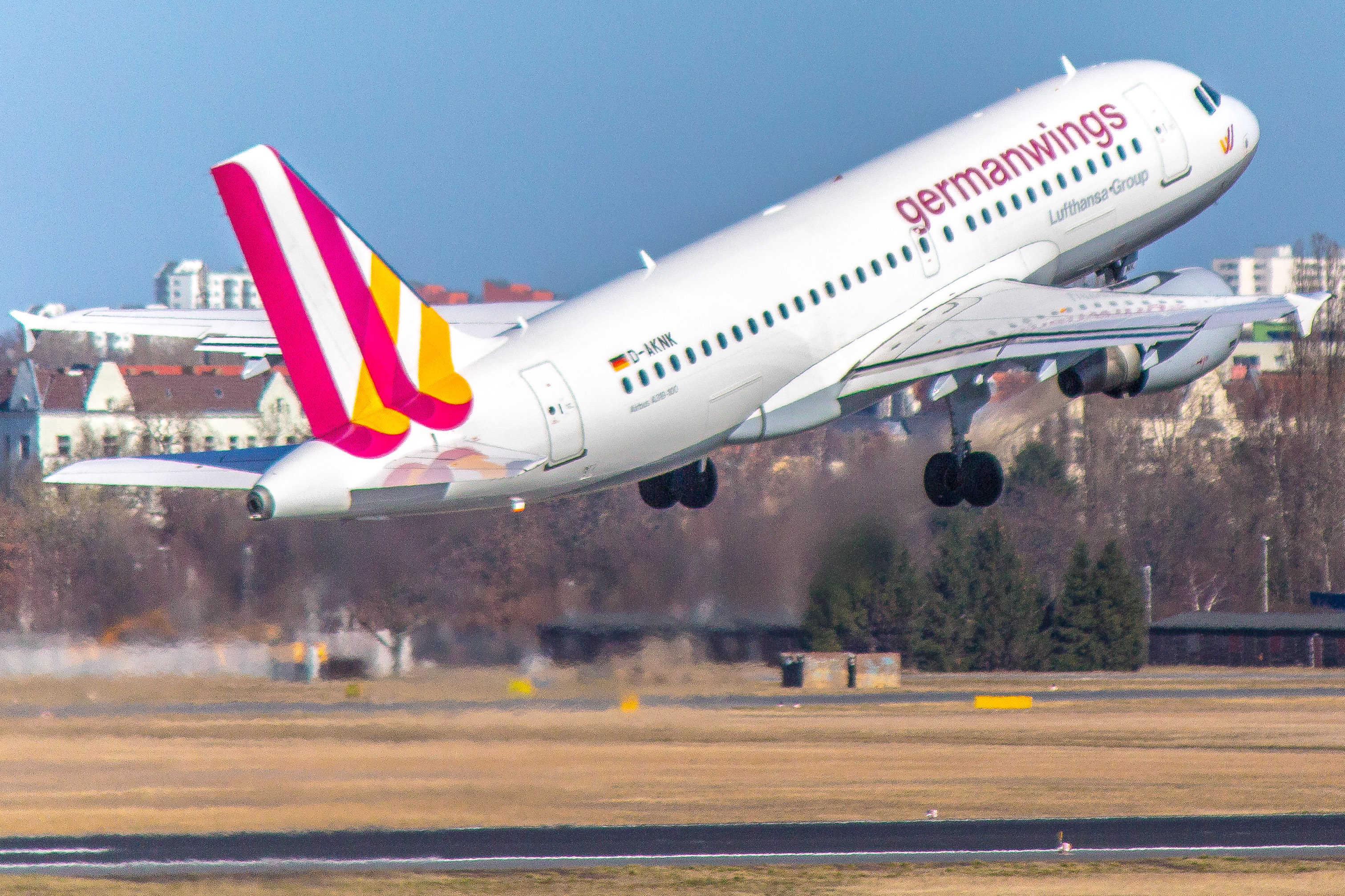 Jet engine airflow during take-off